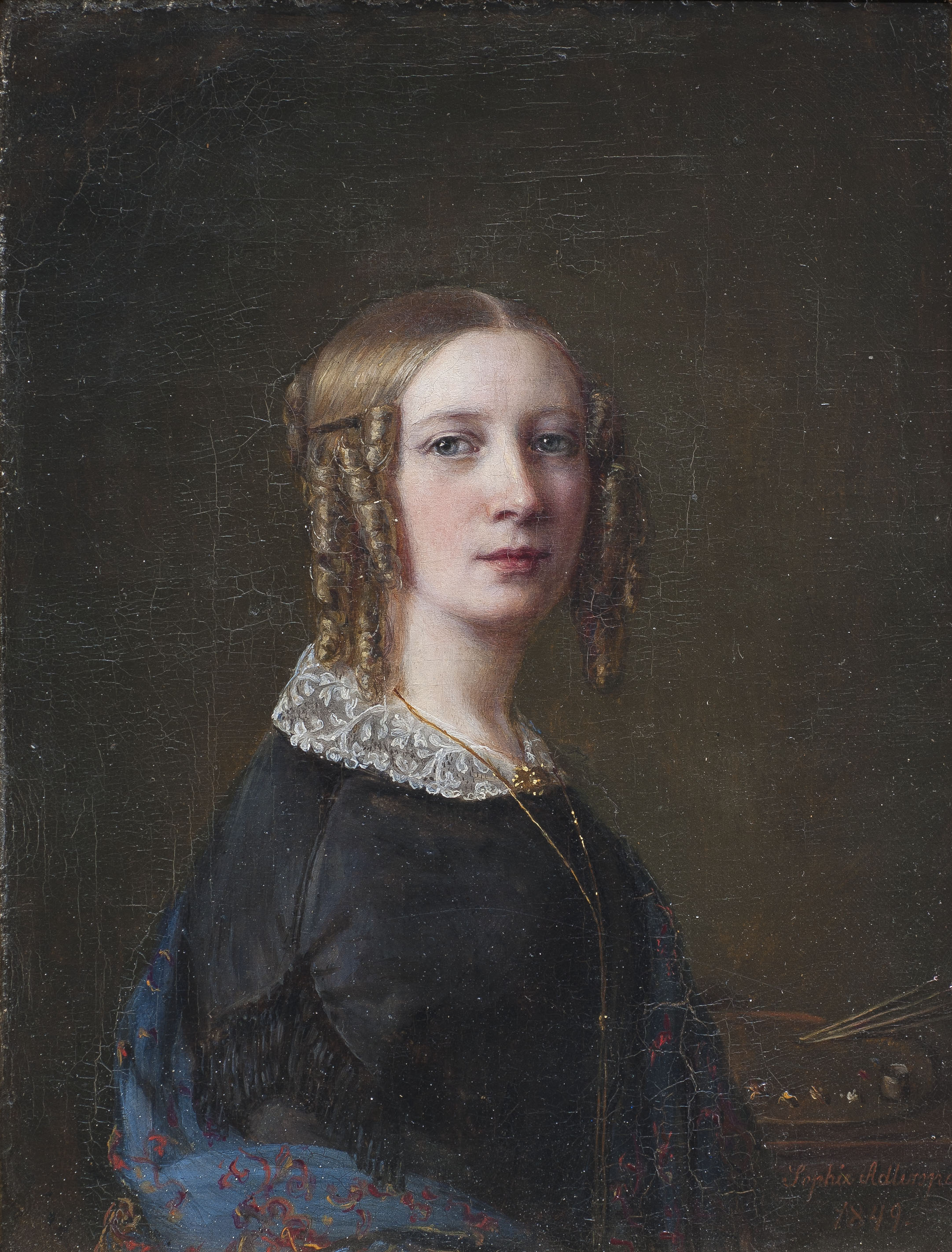 Portrait with the side-curls that were most common as part of 1830s and 1840s women's hairstyles.